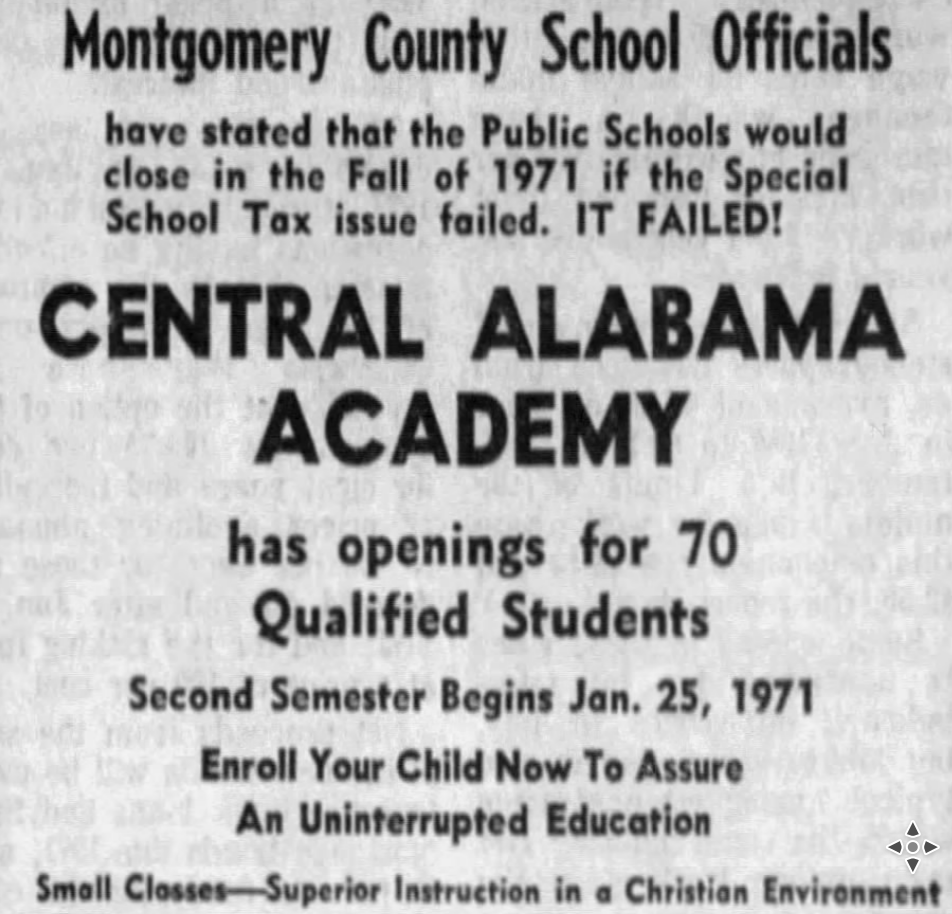 Advertisement for Central Alabama Academy Text: Montgomery County School Officials have stated that the Public Schools would close in the Fall of 1971 it the Special School Tax issue failed. IT FAILED! CENTRAL ALABAMA ACADEMY has openings for 70 Qualified Students Second Semester Begins Jan. 25, 1971 Enroll Your Child Now To Assure An Uninterrupted Education